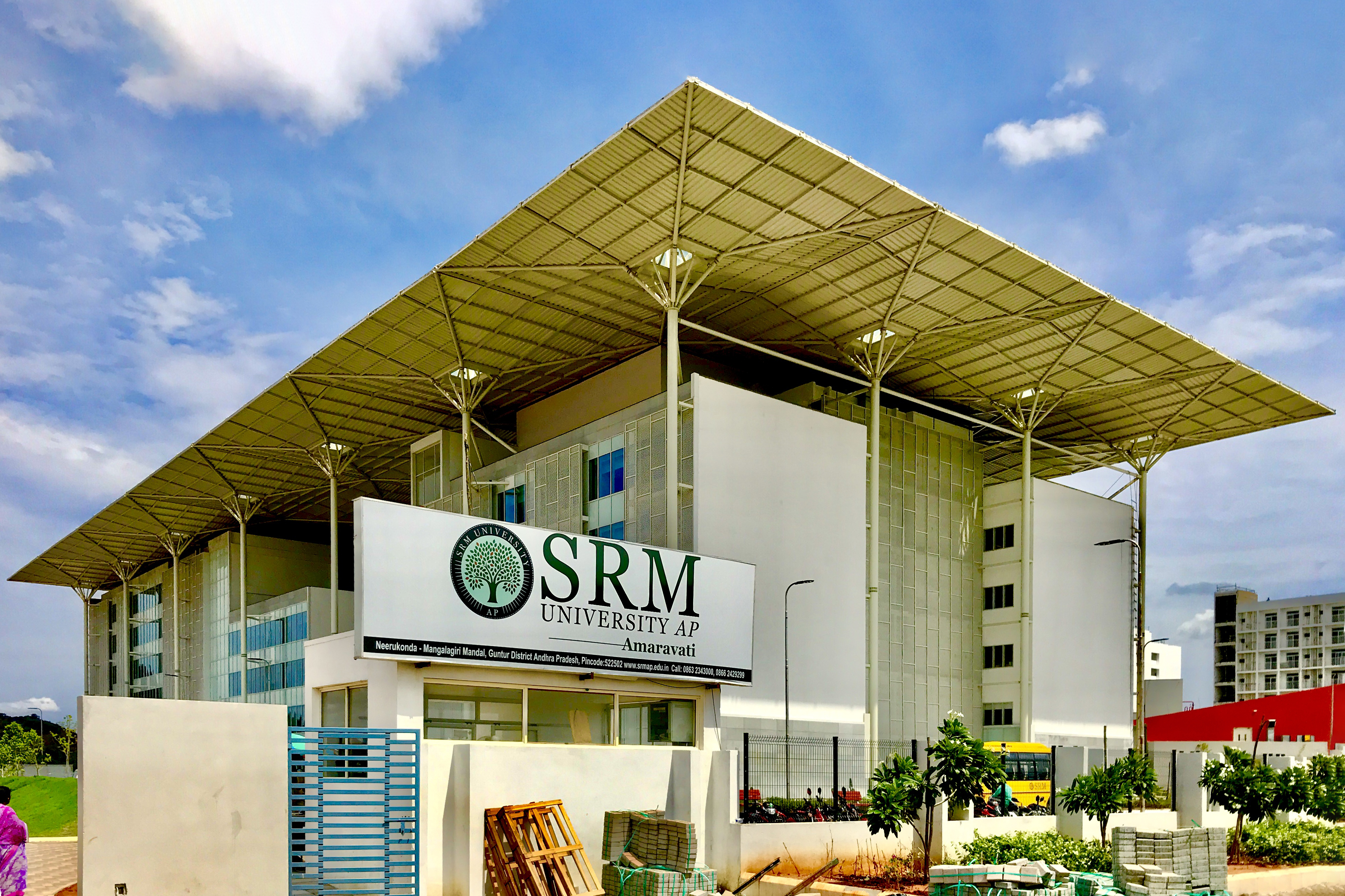 SRM was the 2nd University to setup in Amaravati and was designed by Perkins and Will